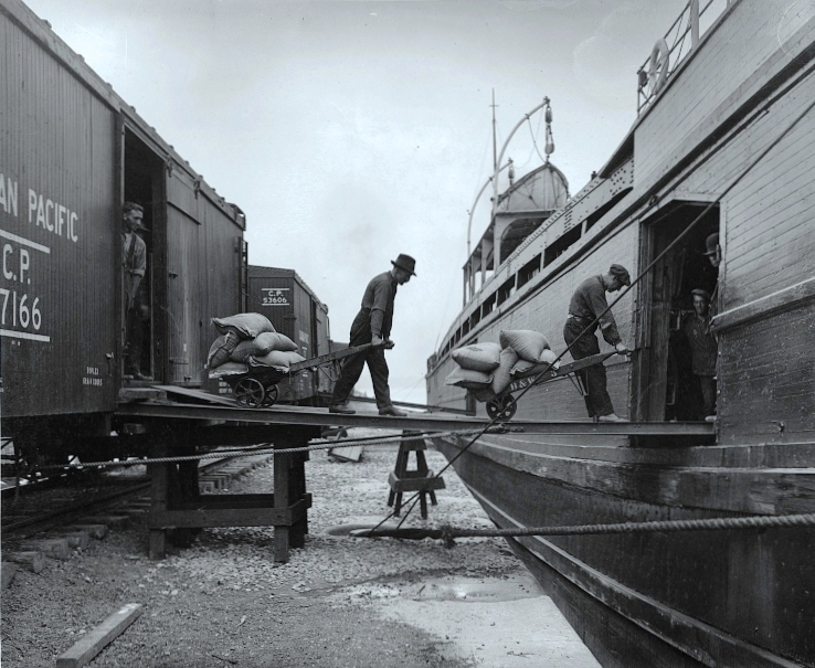 Photograph, Loading sacks of grain on ship, Montreal, QC, about 1920, Anonymous, Silver salts on glass - Gelatin dry plate process - 20 x 25 cm